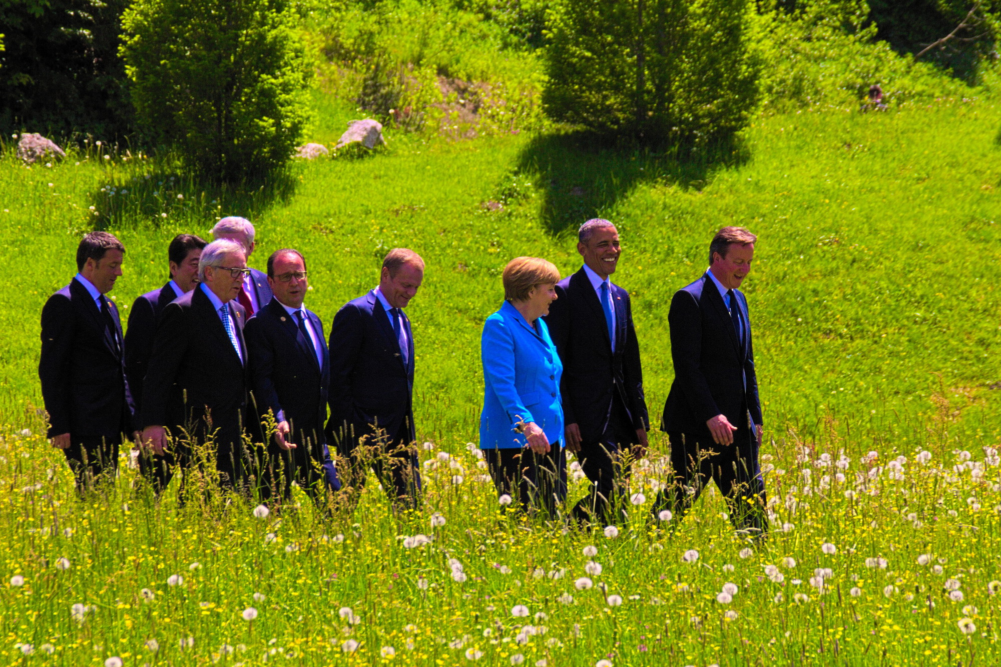 G7 members on the way to the G7 family foto